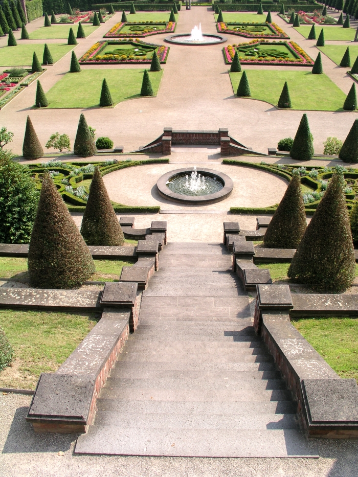 Cloister Kamp, Kamp-Lintfort